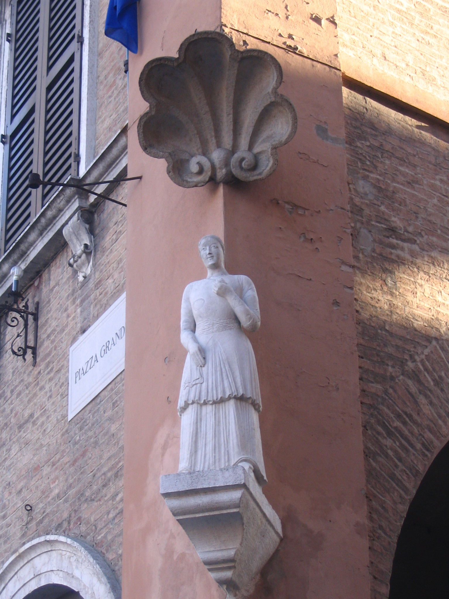 Picture of the "Bunéssma" statue at the corner of Piazza Grande, Modena, Italy